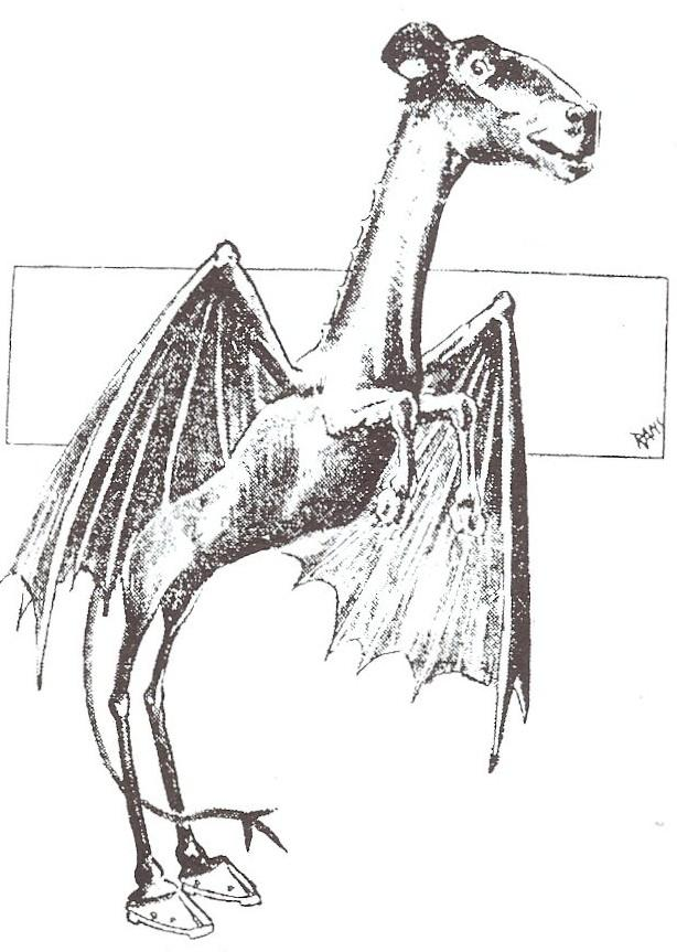 Jersey Devil strip from 1909